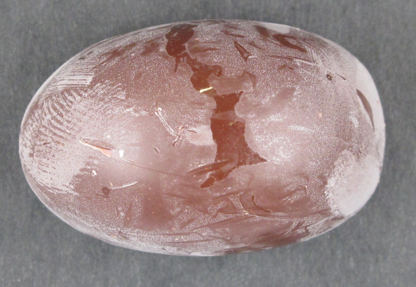 Chocolate filled with Marzipan forming fat bloom at the surface.